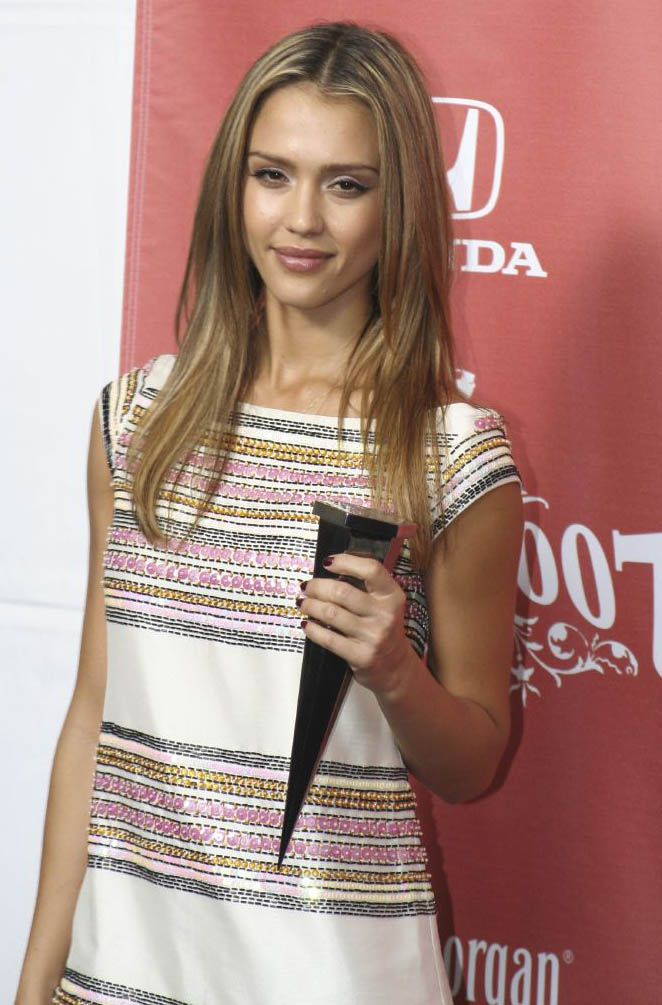 Cropped image to better show subject. Originally found at source stated below.